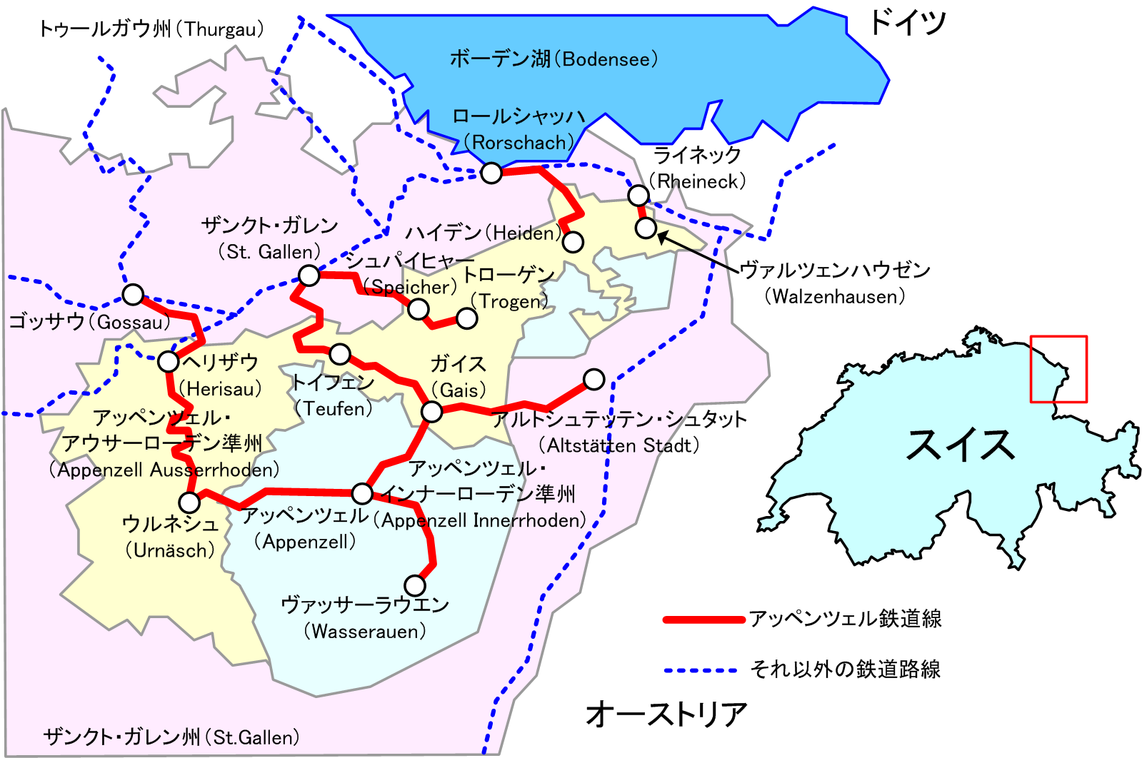 Abstract route map of Appenzeller Bahnen (2006)